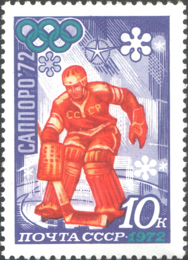 USSR stamp